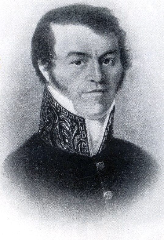 Fyodor Dostoyevsky's father, Mikhail Andreyevich Dostoyevsky , pastel, 1823